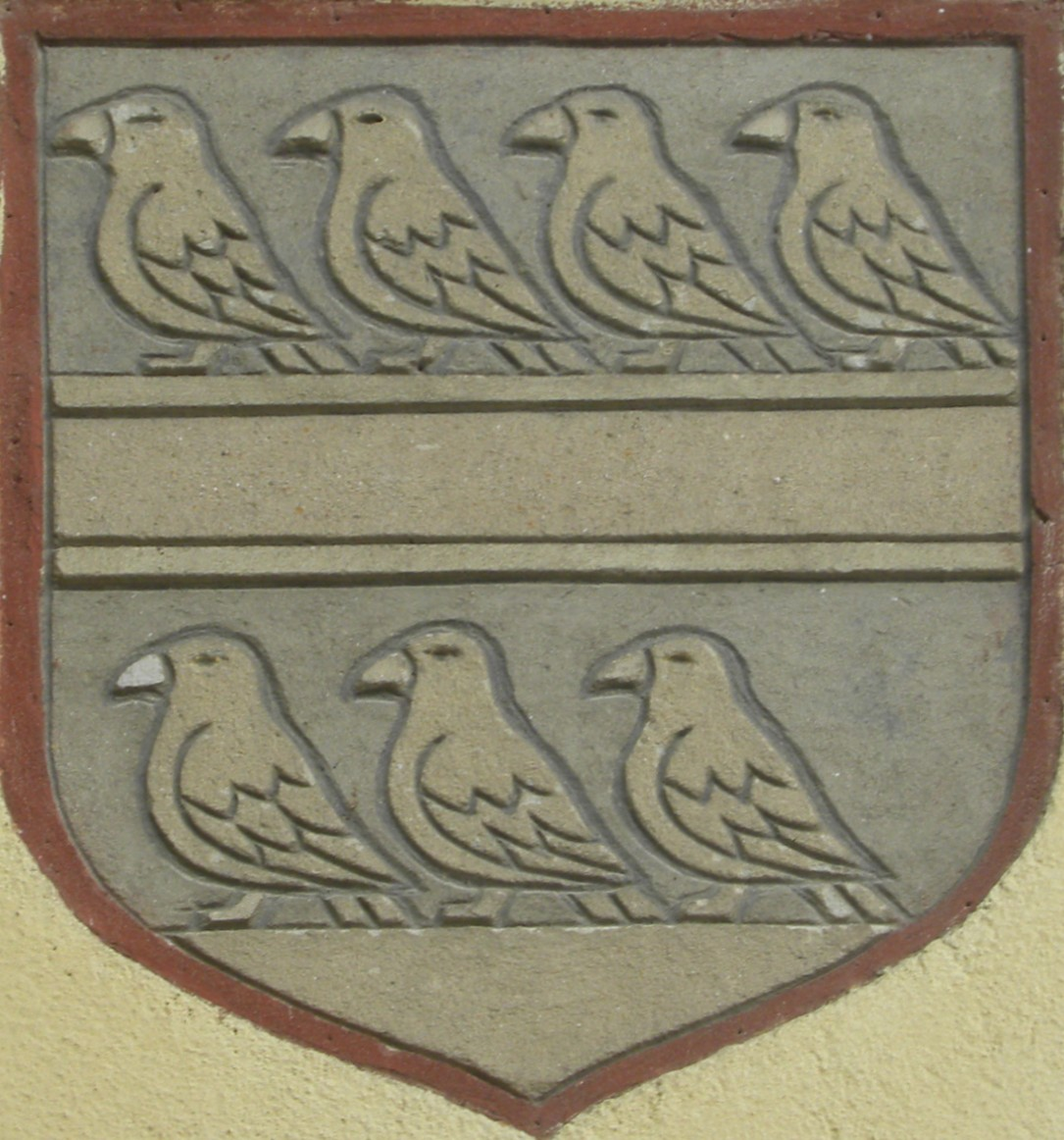 Coat of arms of Drugeth family. Facade of Castle Restaurant, Bojnice.